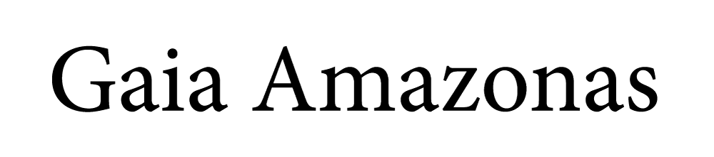 Logo Gaia Amazonas